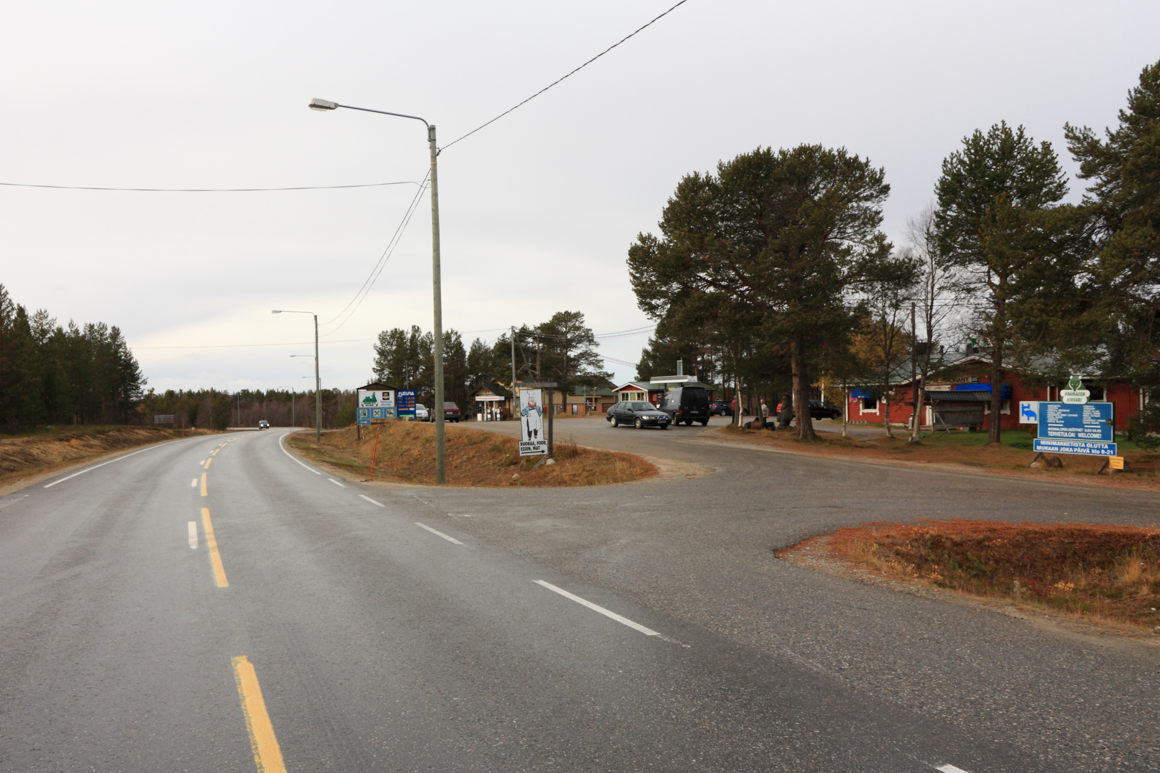 Kaamasen Kievari inn by National Road 4 (E75) in Kaamanen, Inari, Finland.